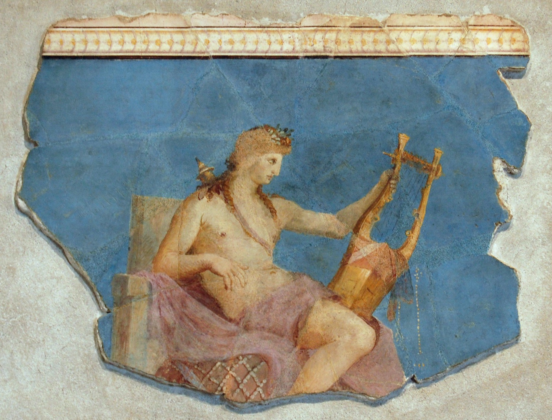 Apollo Kitharoidos. Painted plaster, Roman artwork from the Augustan period. From the Scalae Caci on the Palatine Hill. Antiquarium of the Palatine, Inv. 379982.